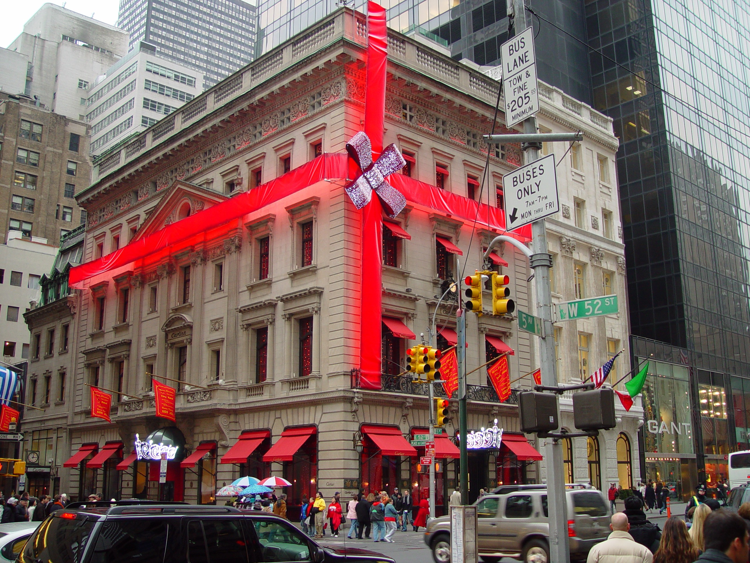 Cartier Building